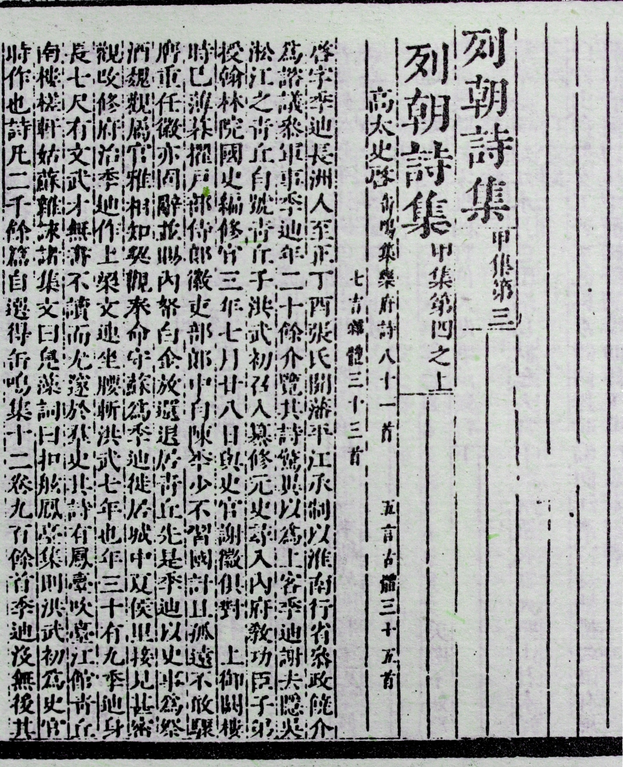 Original Mao Jin Edition of Liechaoji